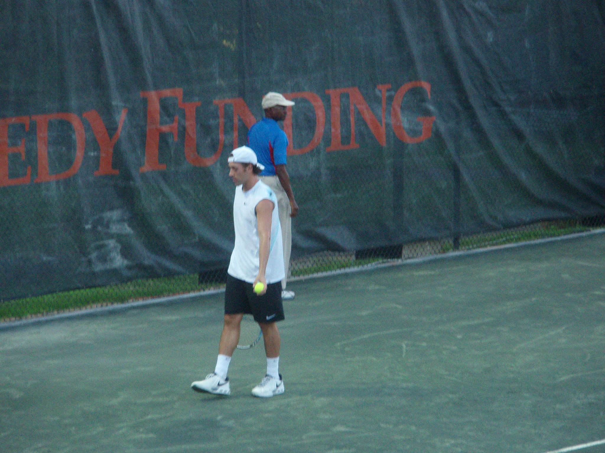 Bobby Reynolds Of USA Playing In New City, New York In The Kennedy Funding Invitational Tournament.